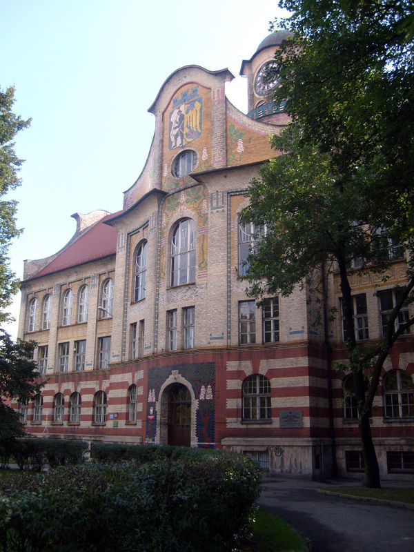 High school in Bytom